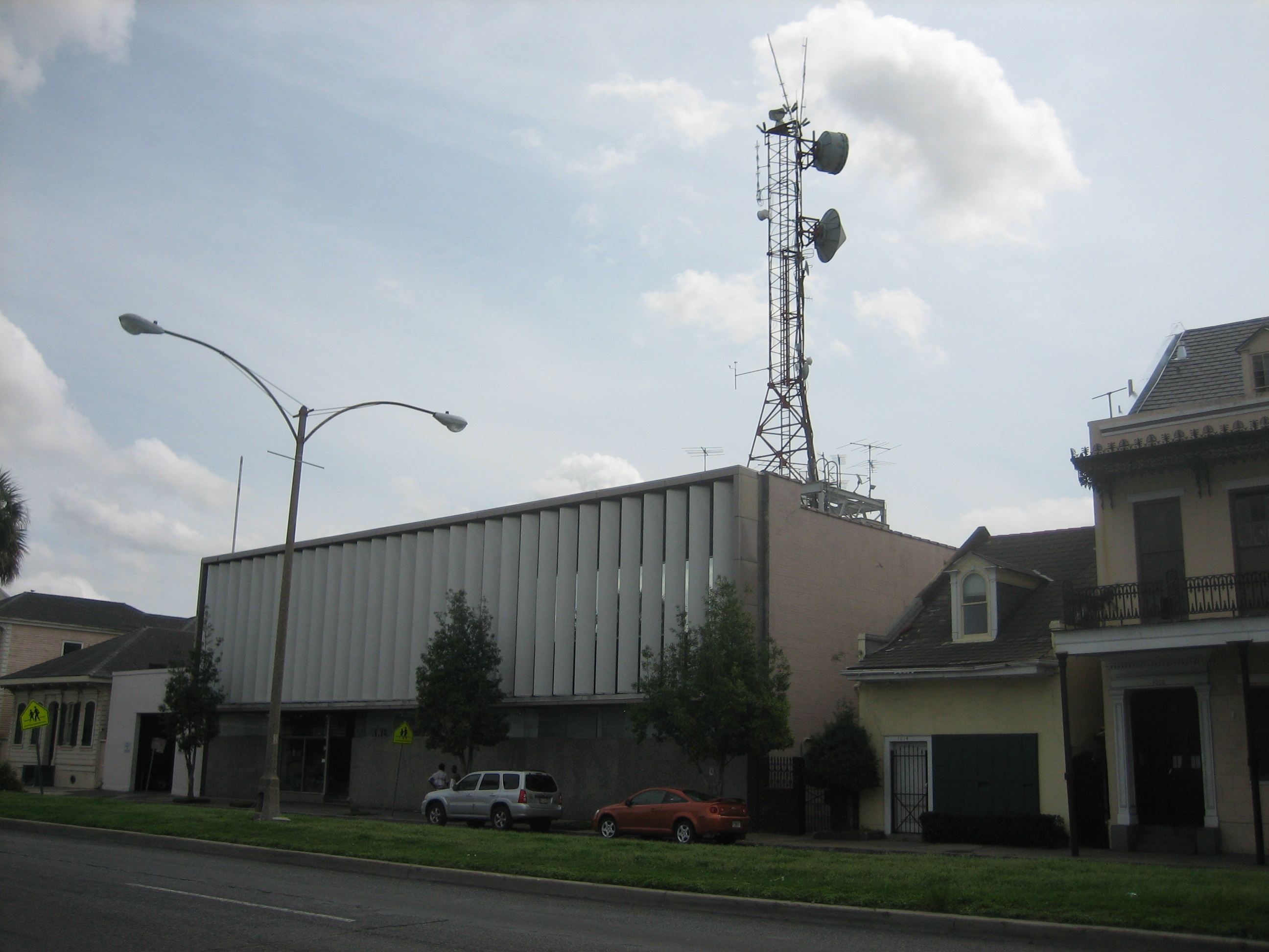 New Orleans: WWL-TV station building on Rampart Street at the edge of the French Quarter